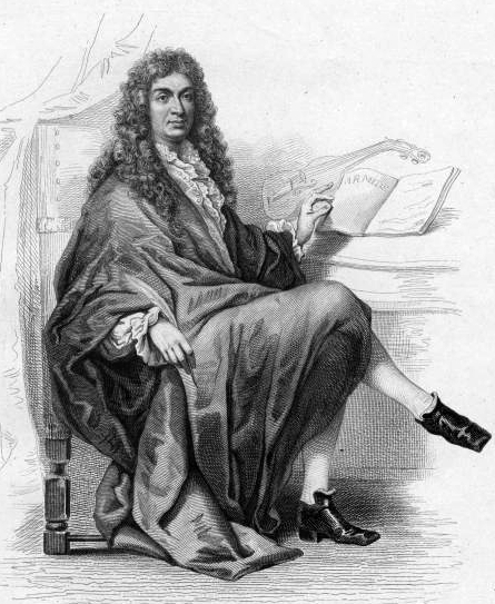 Jean-Baptiste Lully (1632-1687) after a drawing by Tony Johannot (1803-1852).